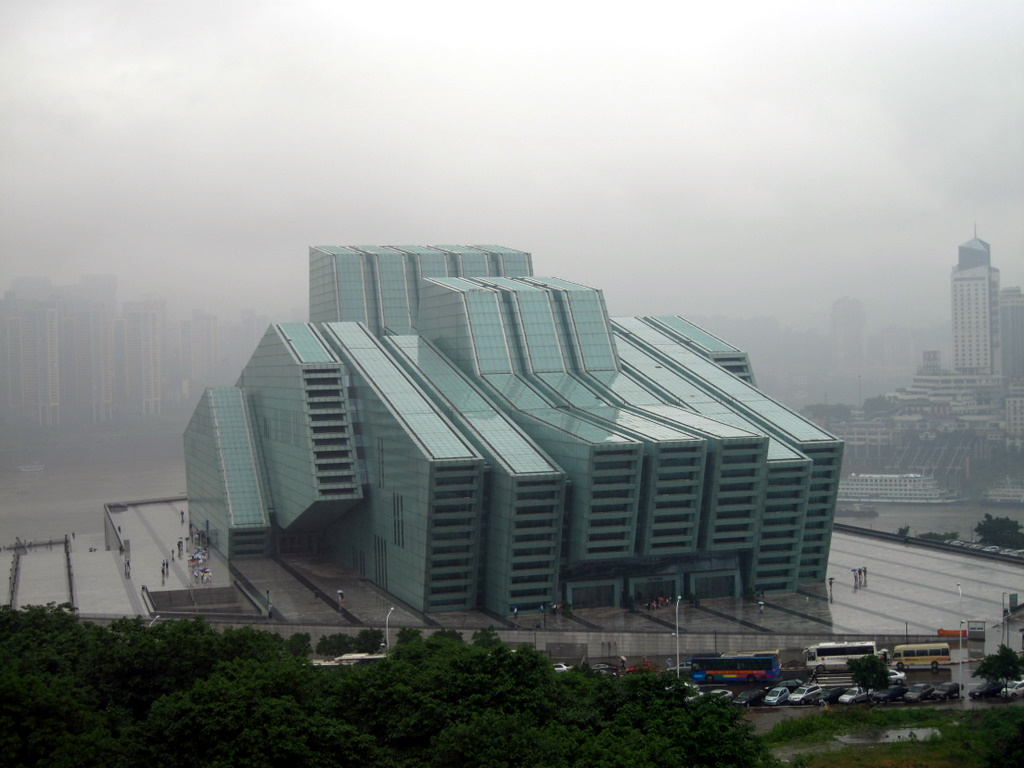 Chongqing Grand Theatre,Jiangbei District,Chongqing,China.